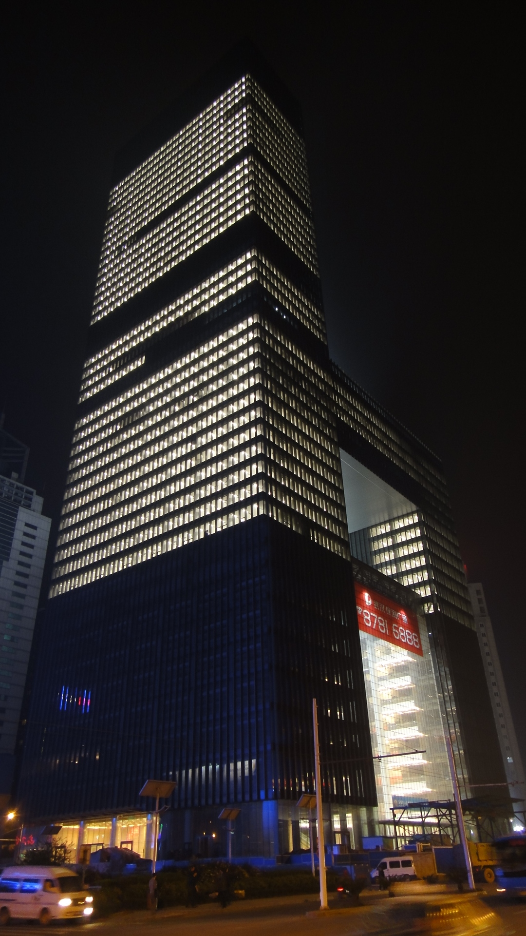 Wuhan Poly Culture Plaza at night